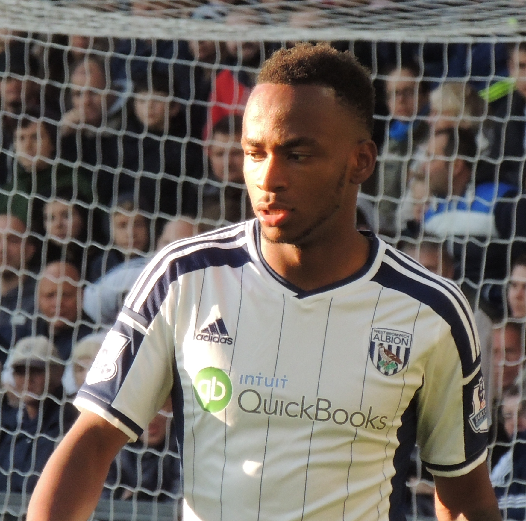 Saido Berahino playing for West Bromwich Albion in 2014.